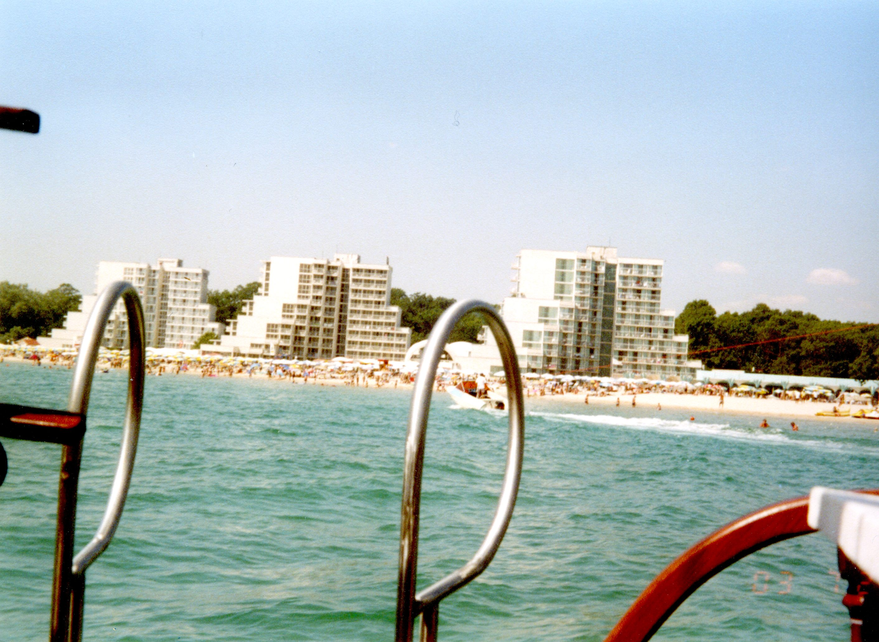 Albena hotels Eliza, Nona and Boryana from the seaside